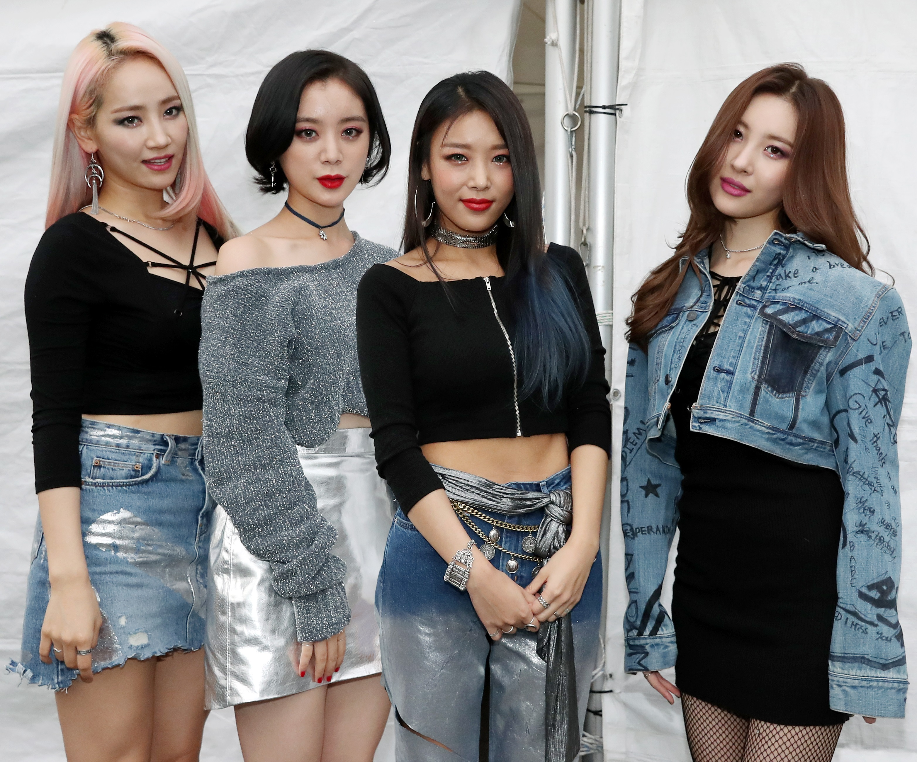 Wonder Girls in 2016 (cropped)